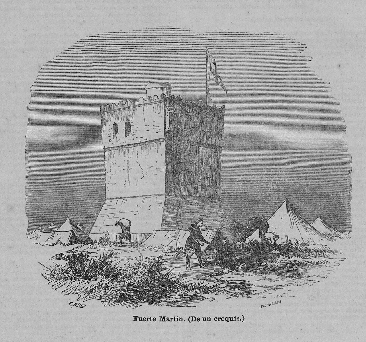 Fuerte Martin (De un croquis).